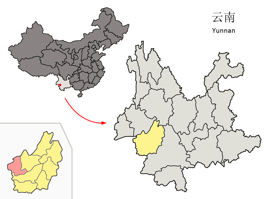 Location of Zhenkang County (pink) and Lincang Prefecture (yellow) within Yunnan province of China Map drawn in september 2007 using various sources, mainly : Yunnan province administrative regions GIS data: 1:1M, County level, 1990 Yunnan Counties map from